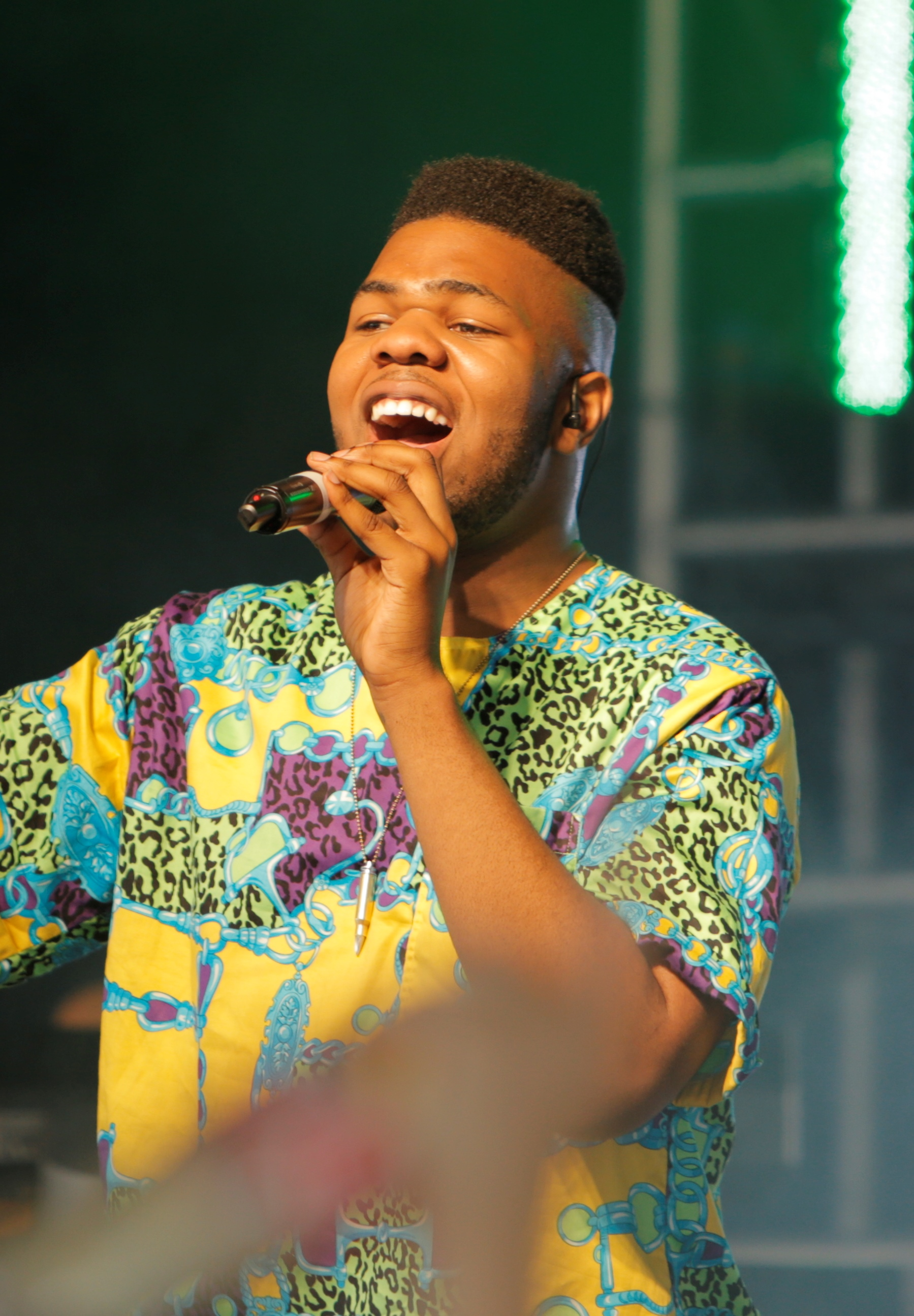 MNEK cropped